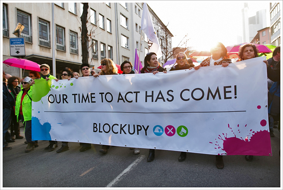 Blockupy protests in Frankfurt/Main